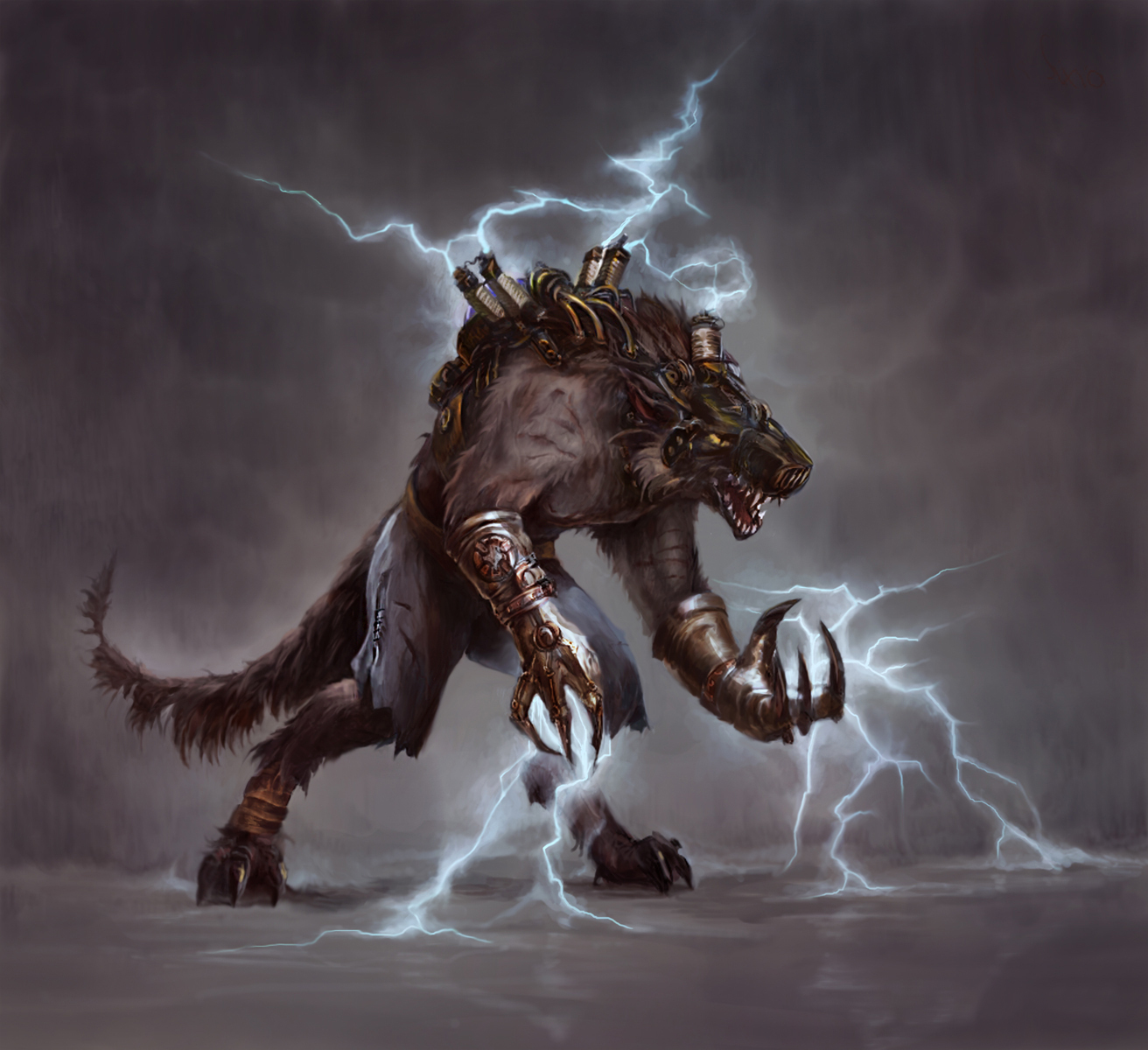 Image is of concept art from NeocoreGames.